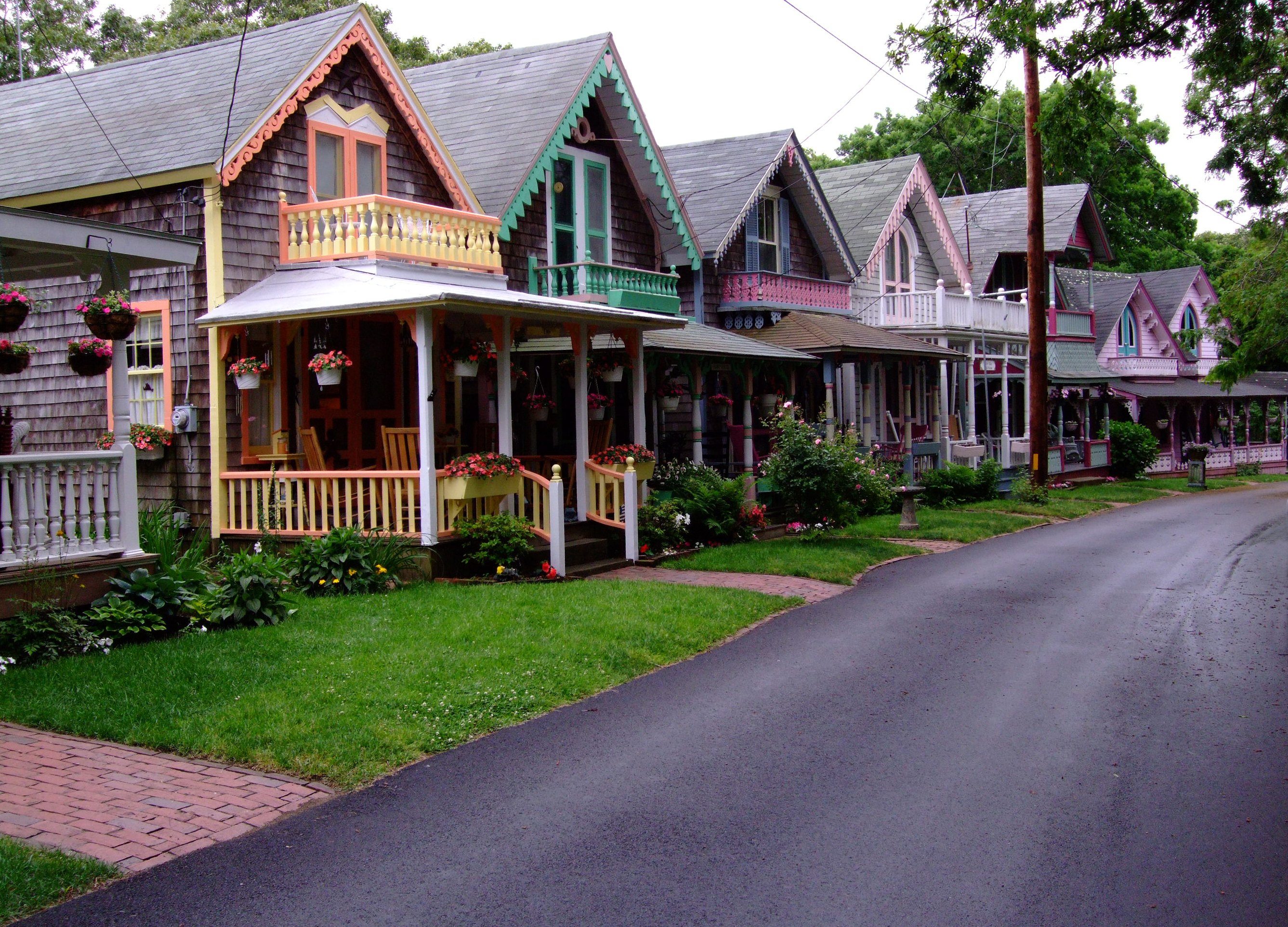 Cottages, Martha's Vineyard, Massachusetts, USA